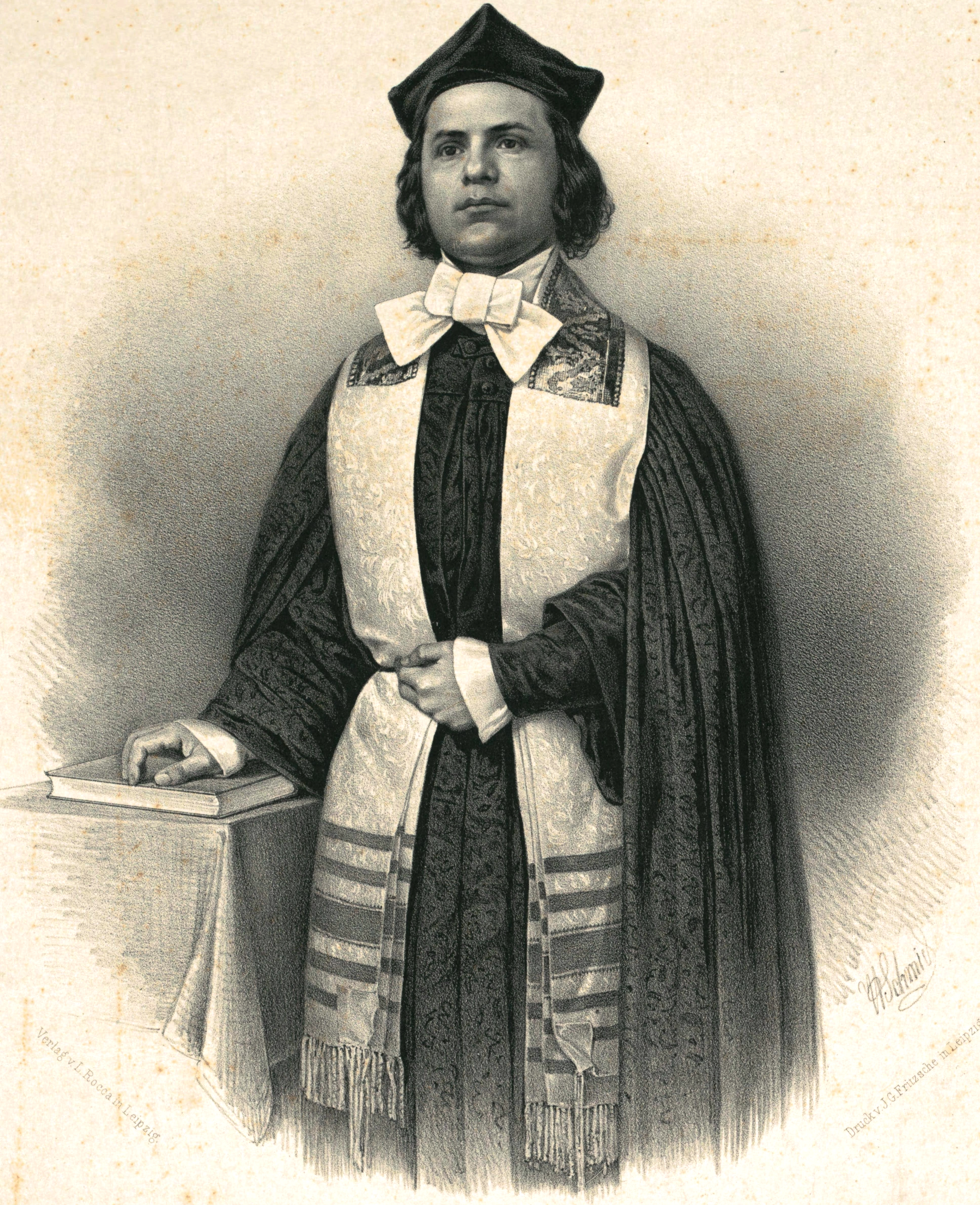 Rabbi Adolph (Aaron) Jellinek (b. Moravia 1820-1893). Name of publisher lower left and name of printer lower right. Signed in print by Schmid in lower right. Signature of Jellinek under a quotation from Zacharias 4:6 (in German). Jellinek shown in rabbinical vestments and prayer shawl, leaning on book.